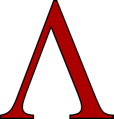 Coloured Lambda.